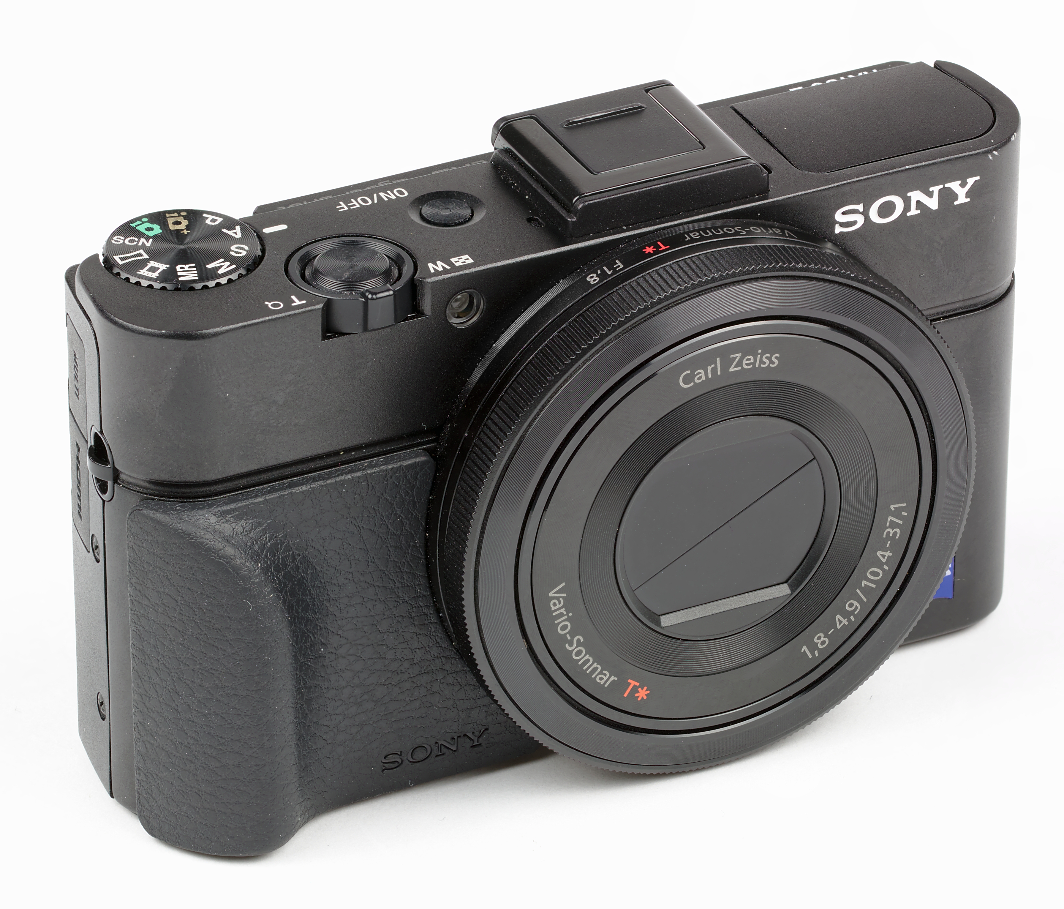 Sony Cyber-shot DSC-RX100 II Front with mounted grip (Sony AG-R1)